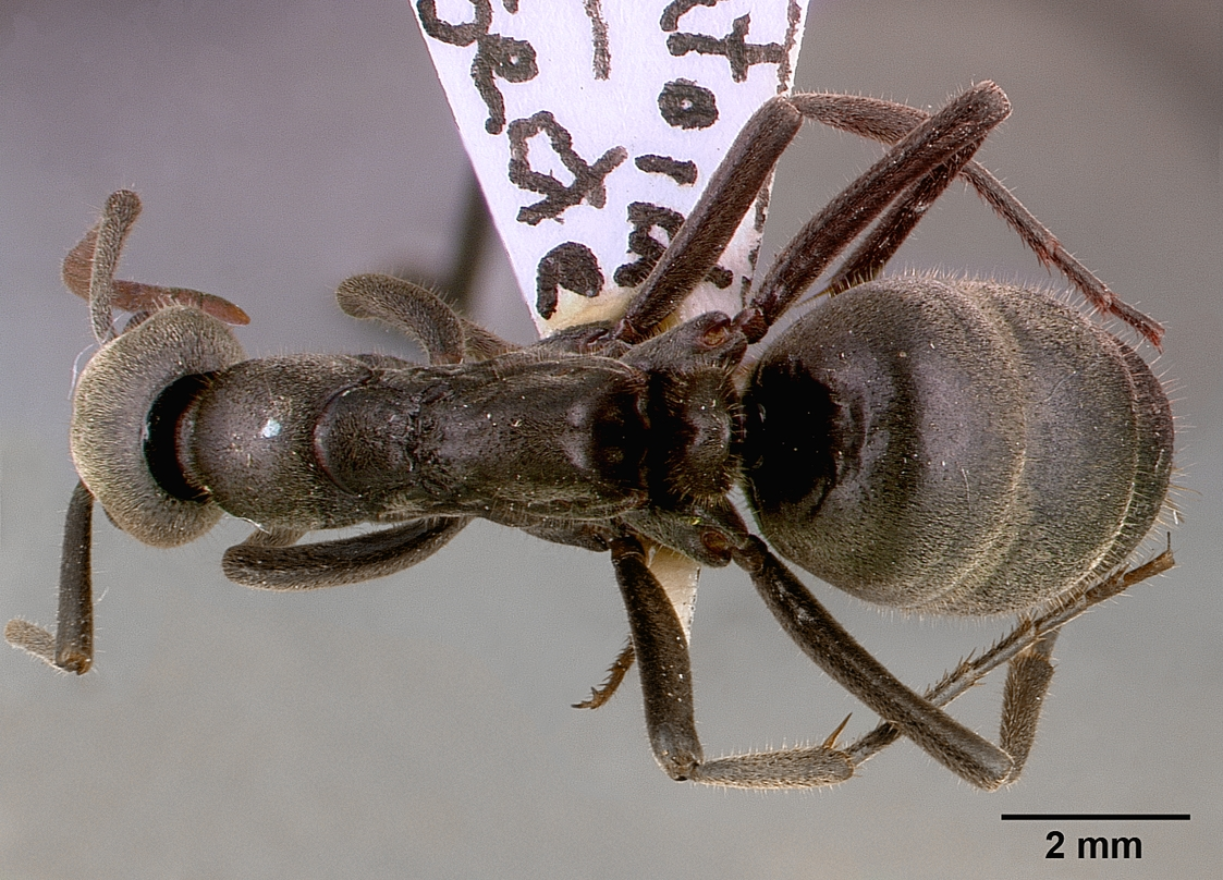 Dorsal view of ant Pachycondyla analis specimen sam-hym-c000749b.